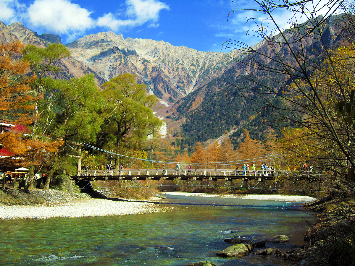 Kamikochi in autumn. Kappa Bridge over the Azusa River. Okuhodakadake (Mount Okuhotaka) in the background.